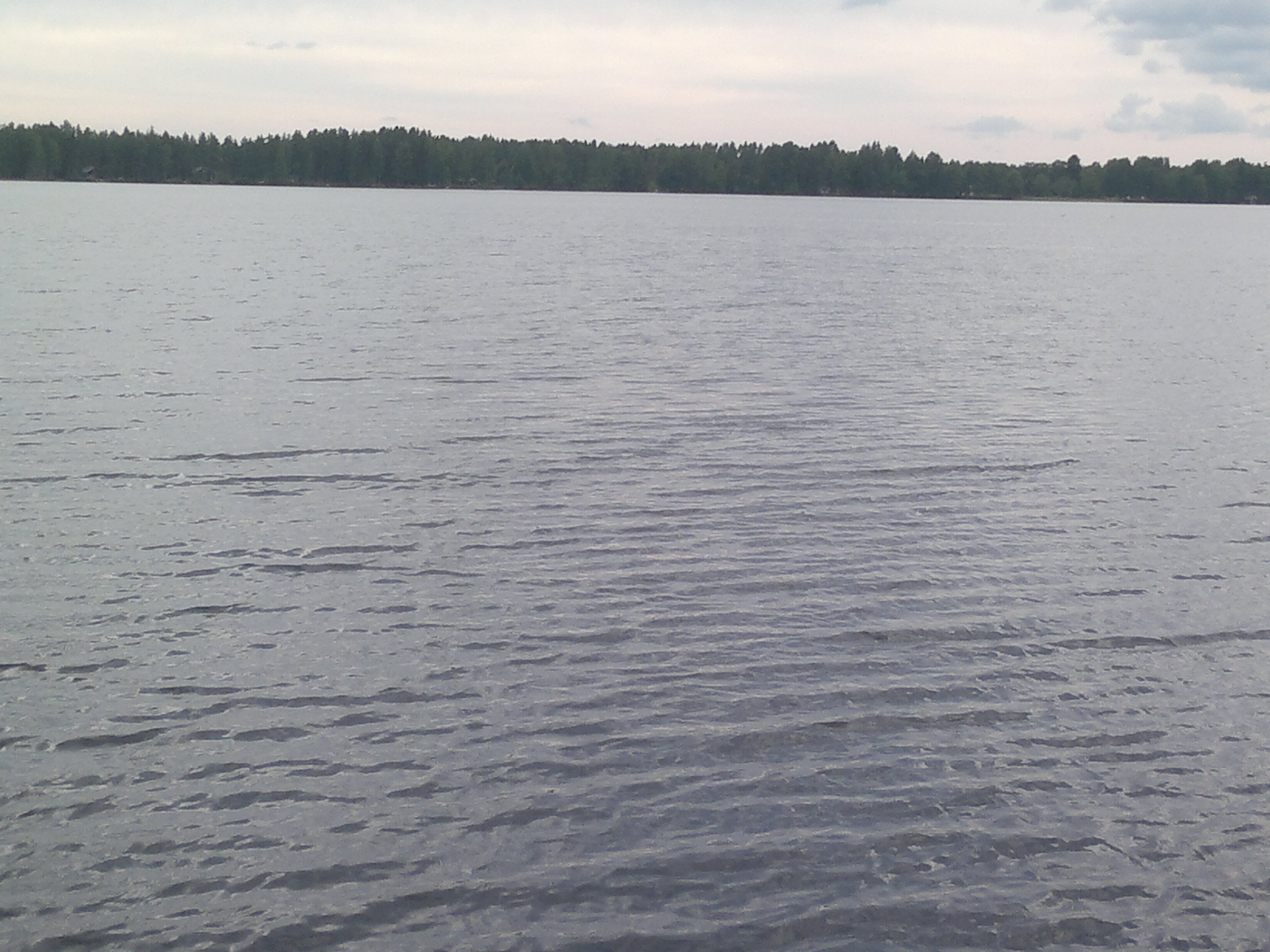 Kätkänjärvi in Alajärvi, Finland